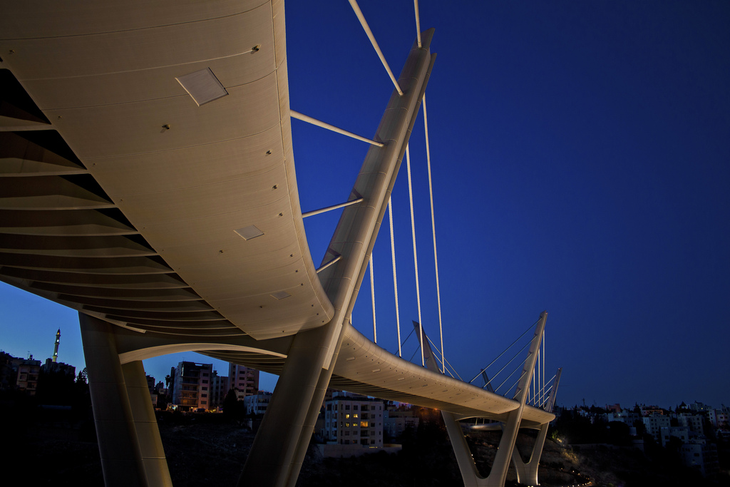 Wadi Abdoun Bridge in Amman, Jordan. The only cable-stayed bridge in the country, it crosses the Wadi Abdoun